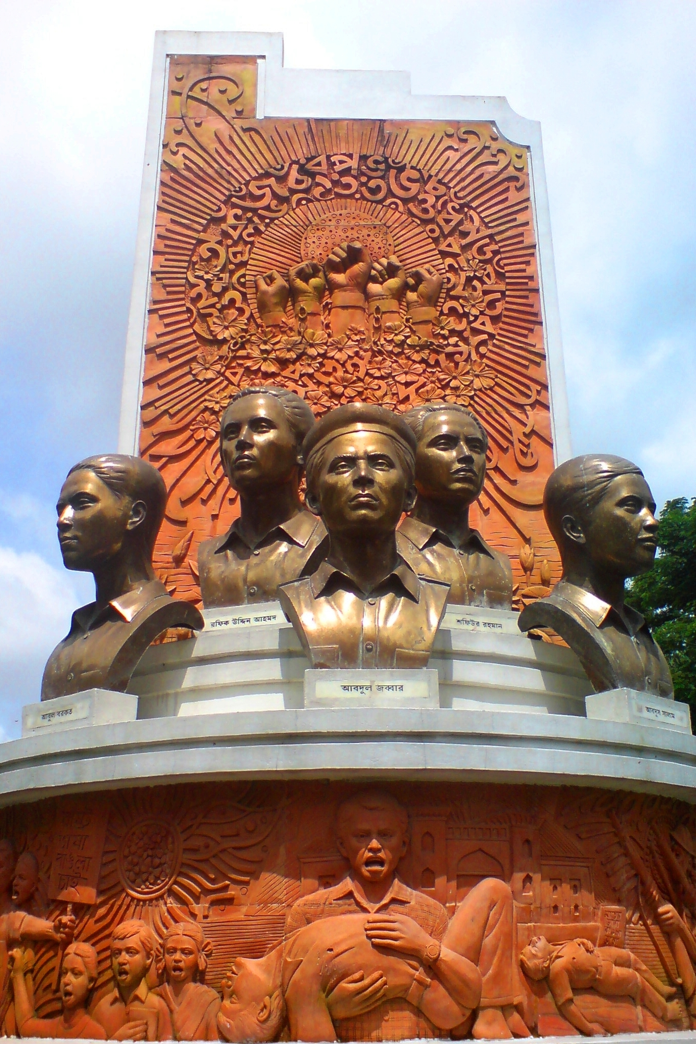 A memorial sculpture built to commemorate the historical language movement of 1952. The Bengali people of the then East Pakistan shaded blood demanding Bangla as the state language. Situated at the premises of Bangla Academy, Dhaka, Bangladesh.